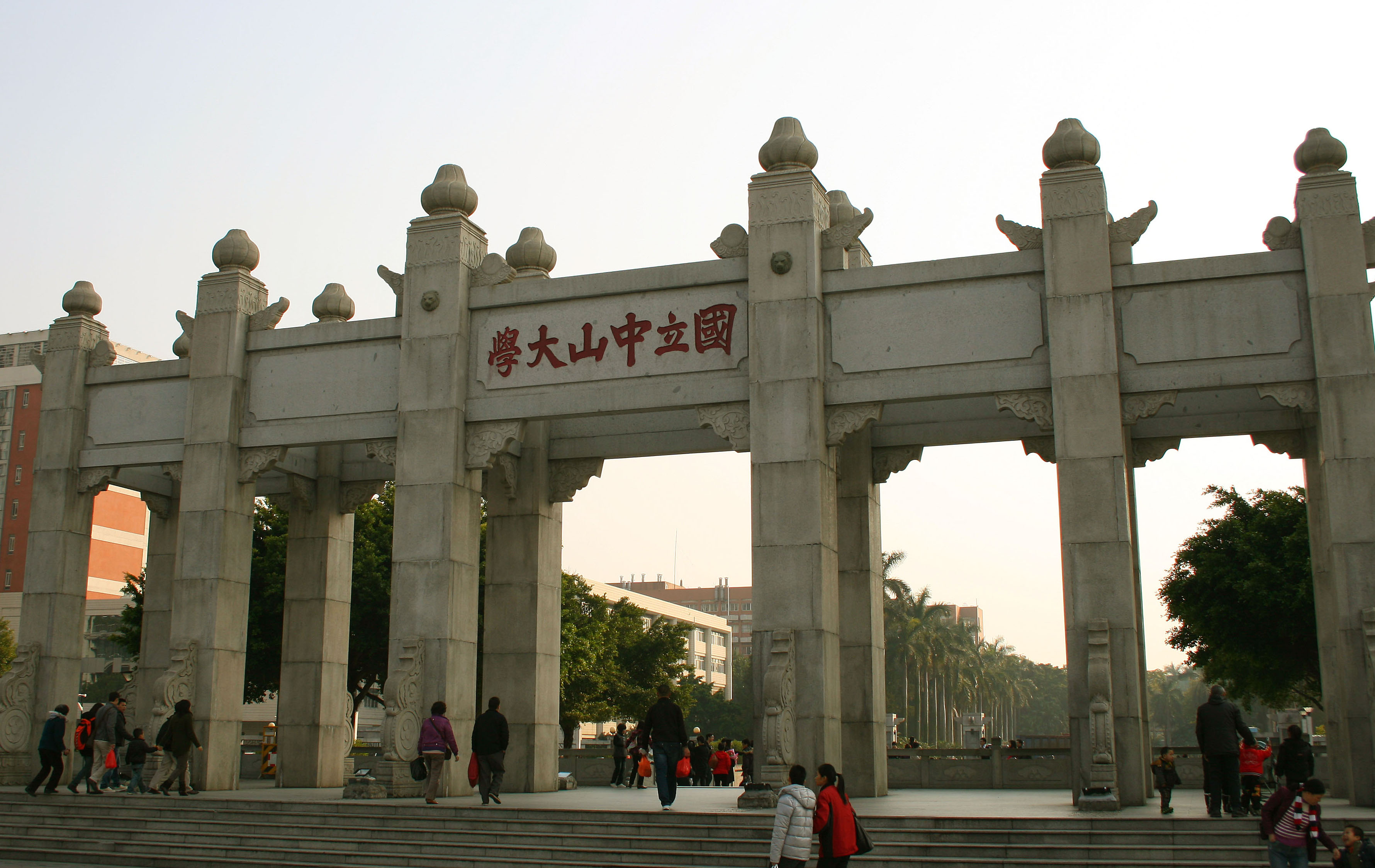 The North Square of Sun Yat-sen University